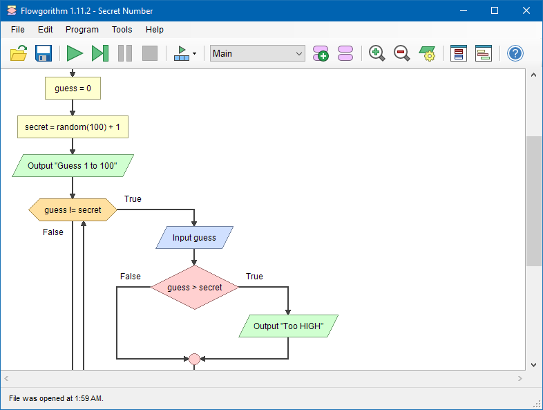 This is a screen shot from the Flowgorithm application. Version 1.3